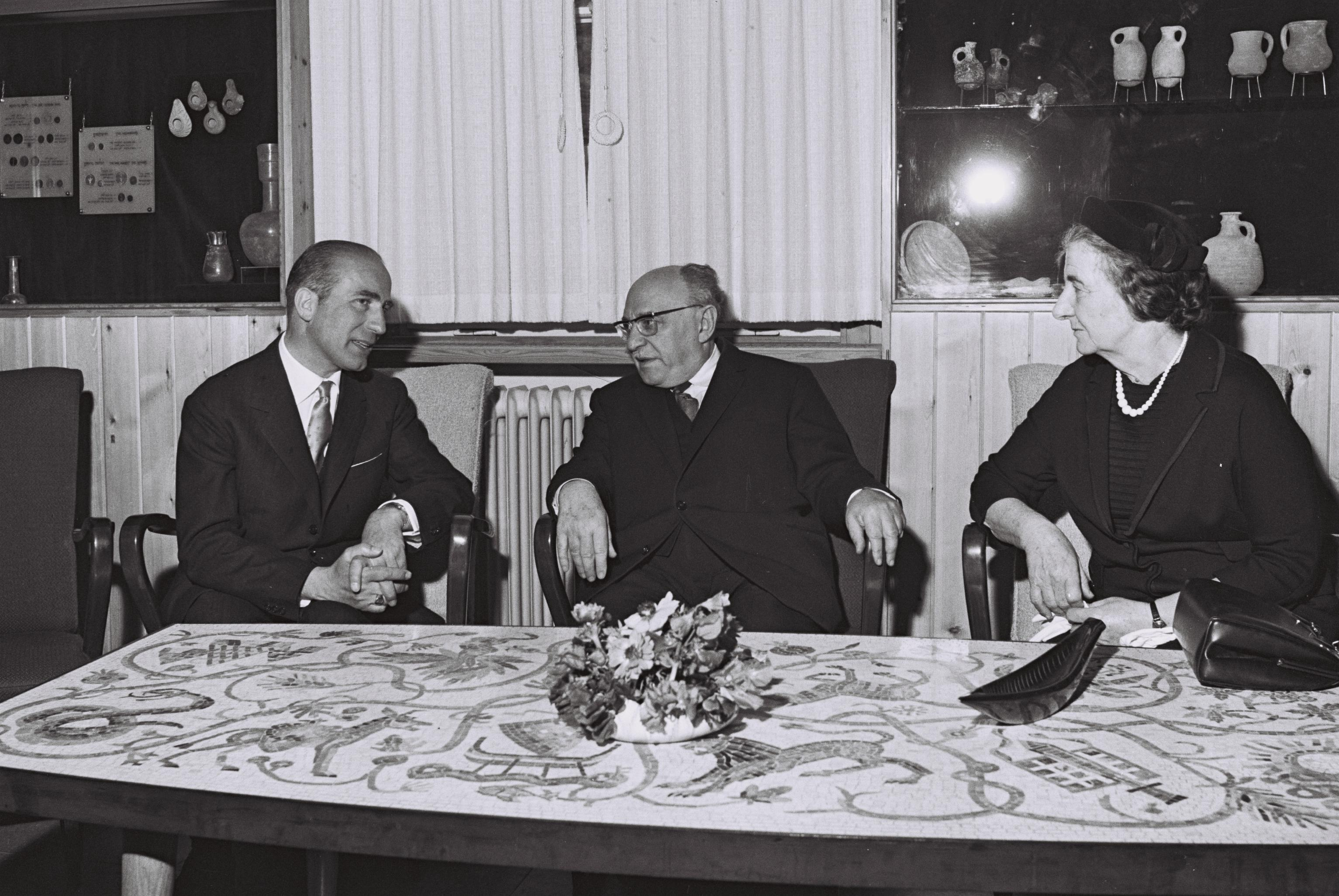 ITALIAN AMBASSADOR ALDO PEIRANTONI IN CONVERSATIONWITH PRES. SHAZAR AND FOREIGN MIN. GOLDA MEIR, AFTER ACCREDITATION CEREMONY, AT BEIT HANASSI IN JERUSALEM